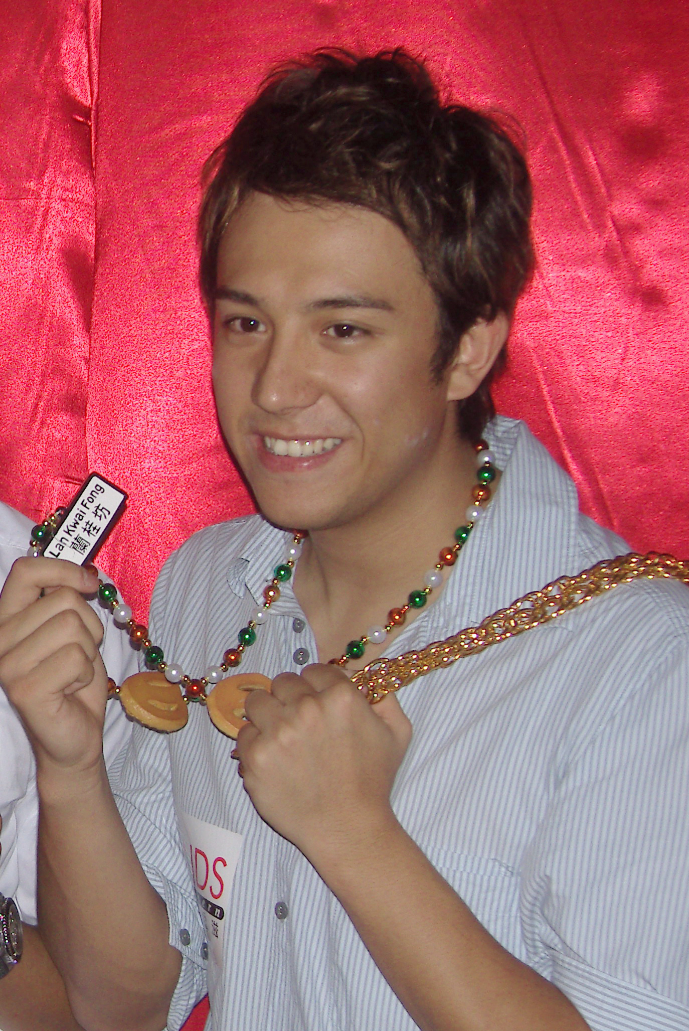 Lan Kwai Fong Carnival 2007 at Lan Kwai Fong, Central, Hong Kong.